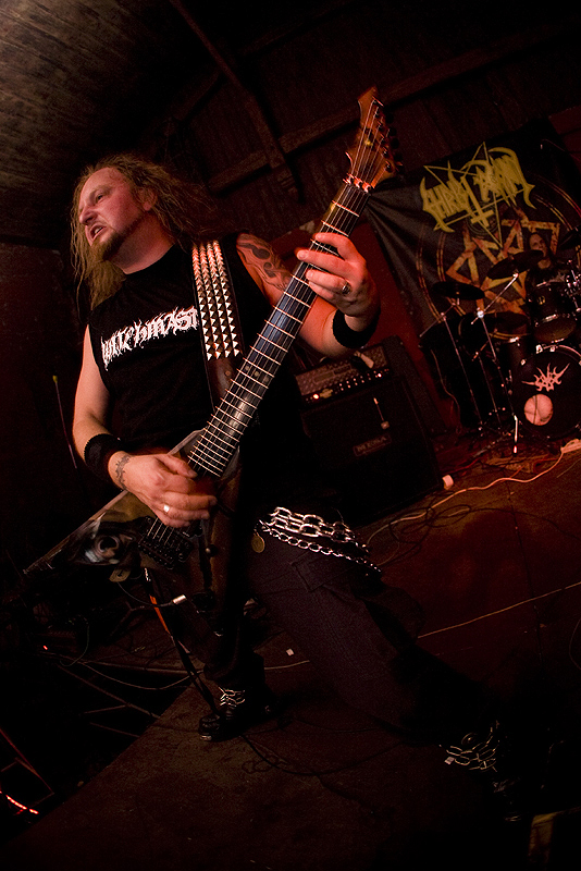 Cezary Augustynowicz from band Christ Agony